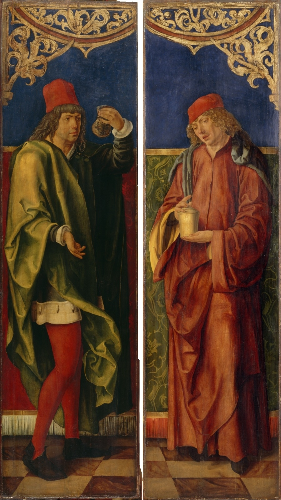 Altar Wings with St. Cosmas and St. Damian from a Nicholas altar of St. Lorenz church in Nuremberg